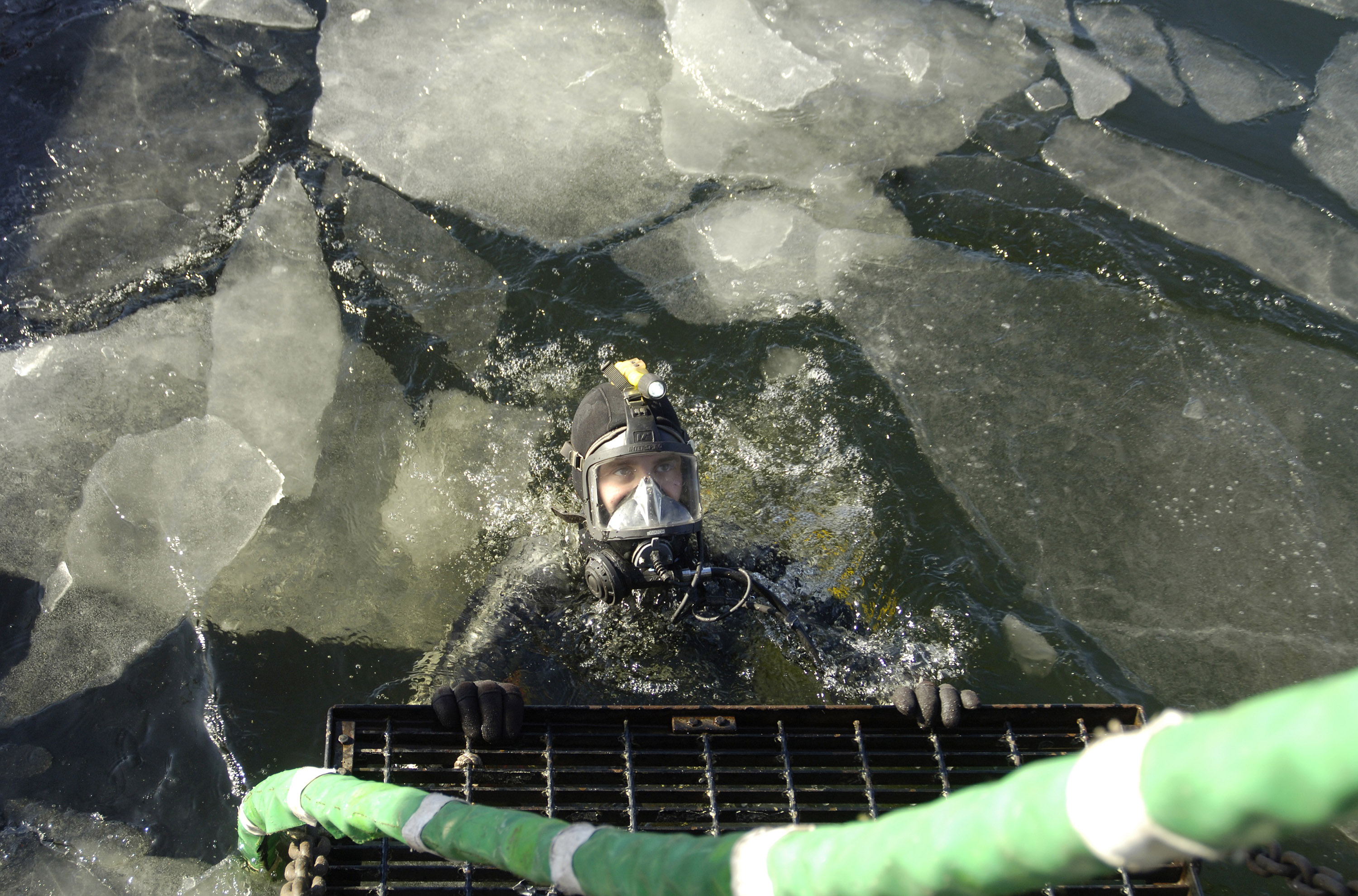 Groton, Conn. (Feb. 7, 2007) - Navy Diver 3rd Class Kurt Eberle waits for a tool bag before he begins a dive project in support of the fast attack submarine USS Miami (SSN 755). Eberle is assigned to Naval Submarine Support Facility dive locker Subase, New London. U.S. Navy photo by Mr. John Narewski (RELEASED)